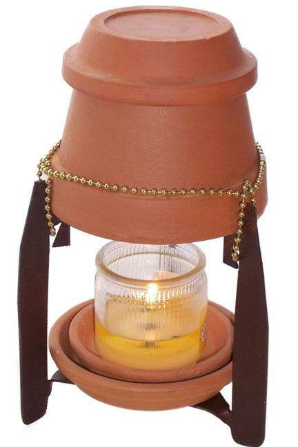 Kandle Heeter™ Candle Holder